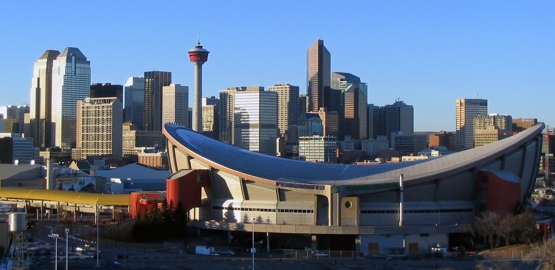 Calgary skyline and Pengrowth Saddledome